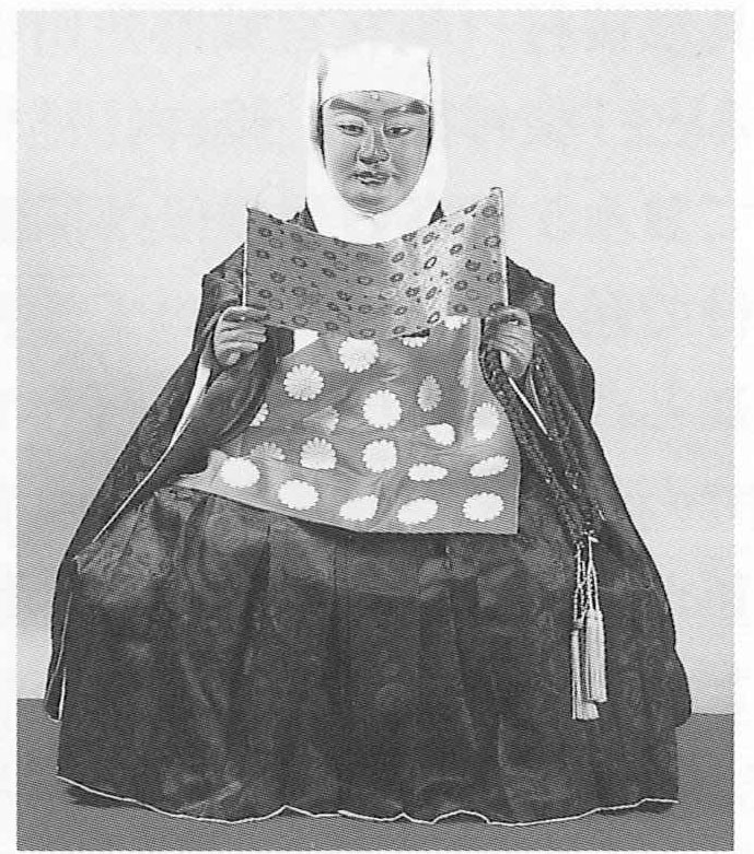 Sculpture portrait of Nichiren, ascribed to his disciple Nippō (日法). At Jusen-ji (鷲山寺) temple.